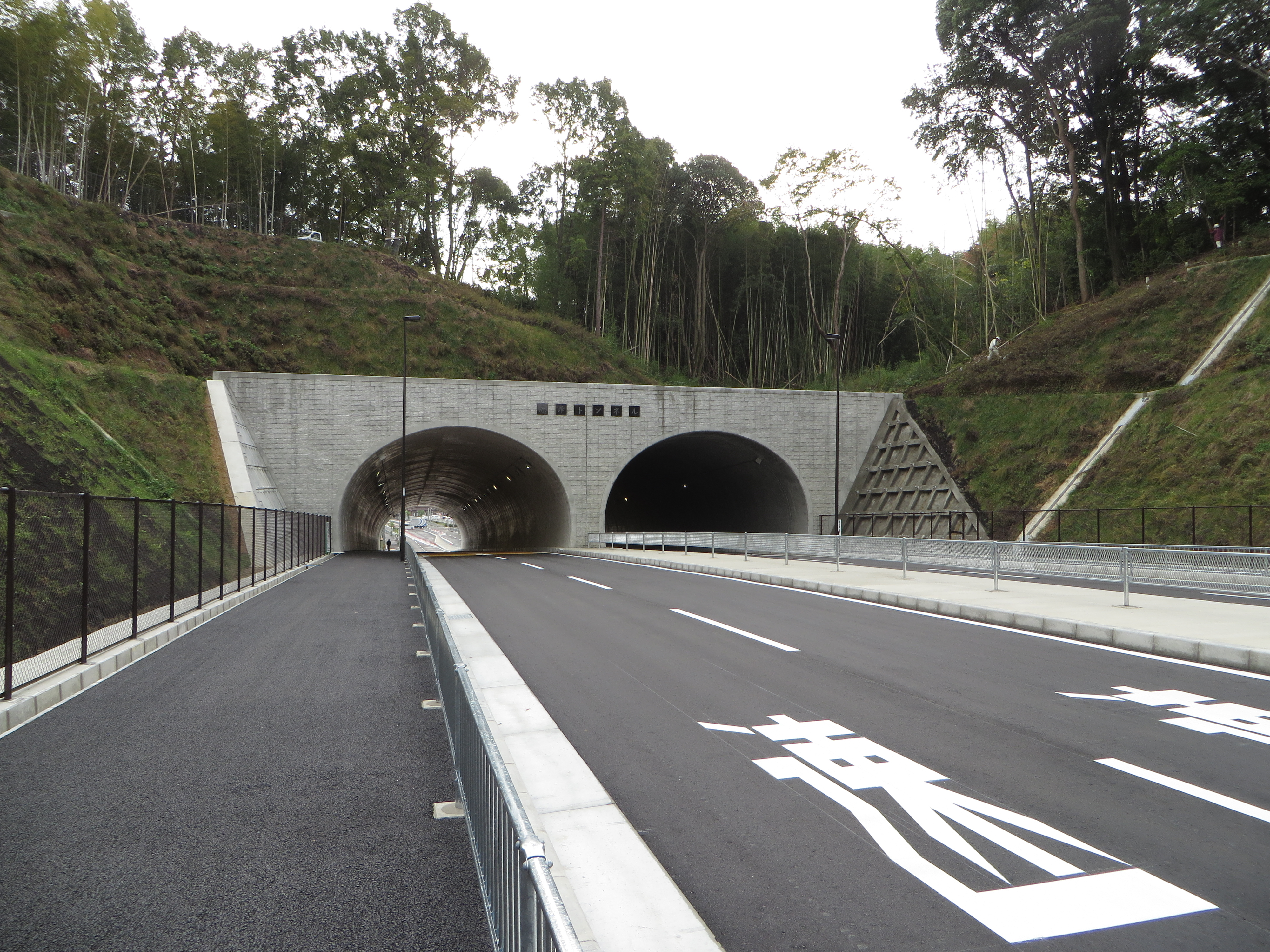 Akamine Tunnel in Kawachinagano, Osaka, Japan.